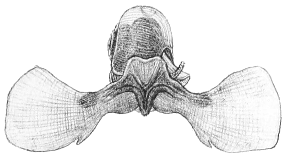 Drawing of frontal view of Limacina helicina.